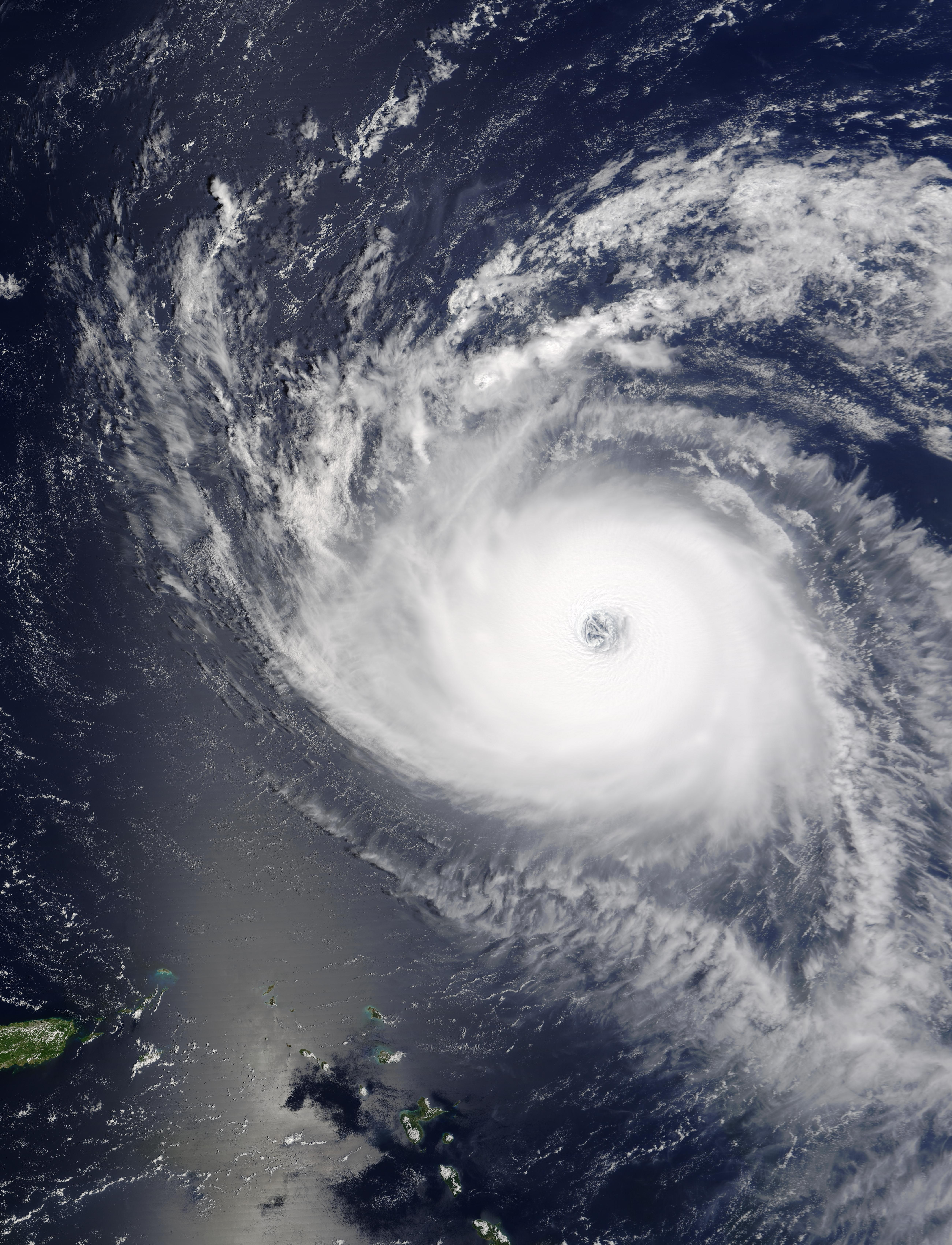 The Moderate Resolution Imaging Spectroradiometer (MODIS) instrument onboard NASA's Terra satellite captured this true-color image of Hurricane Isabel northeast of the Lesser Antilles Islands. At the time Isabel maintained a rare Category 5 status with maximum sustained winds near 160 mph.